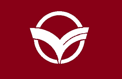 Flag of Nishikawa Yamagata